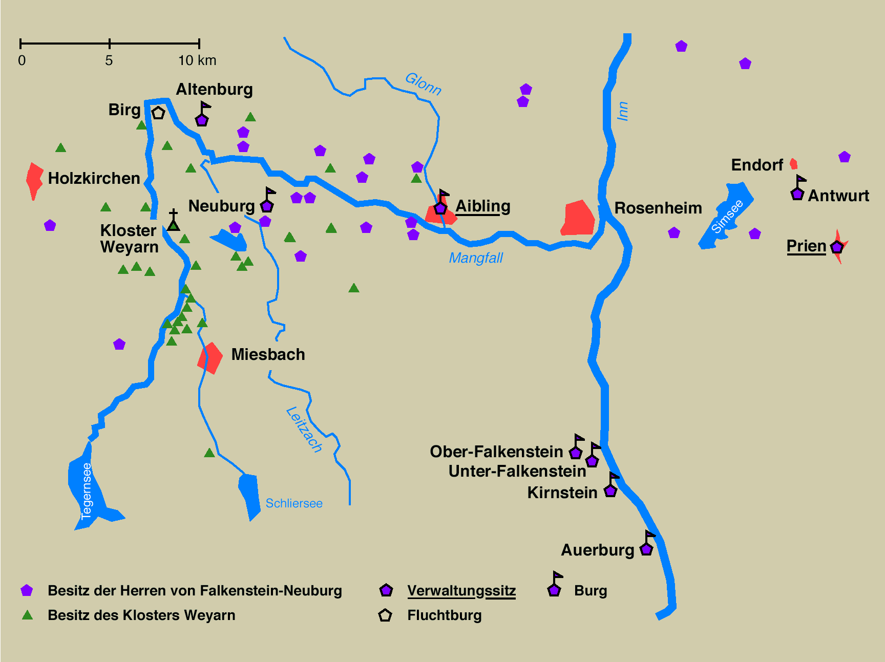 Besitz des Klosters Weyarn und der Grafen von Neuburg-Falkenstein um 1200 n. Chr. im Inn- und Mangfalltal. Property of the Monastery of Weyarn and the earls of Neuburg-Falkenstein, about 1200 AD in the valleys of Inn and Mangfall.